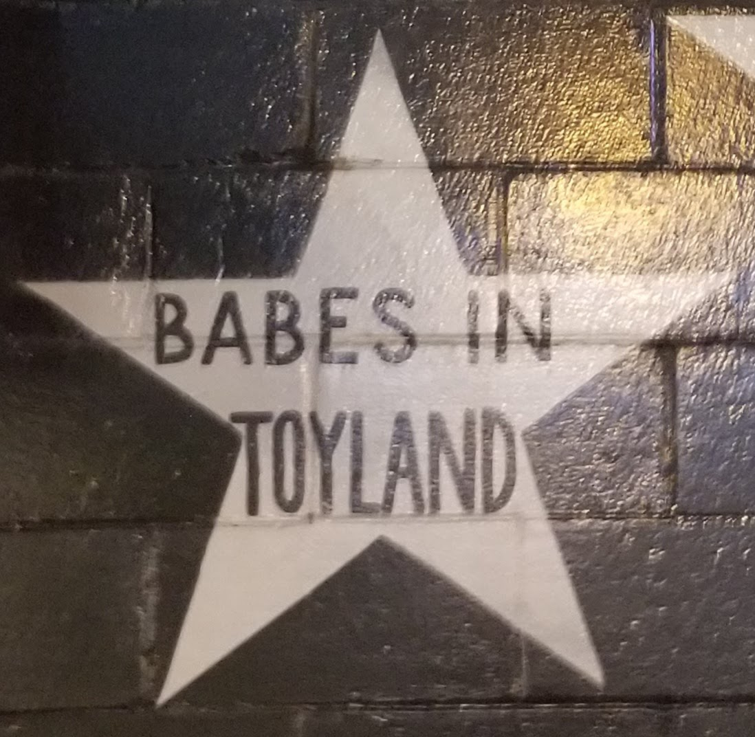 Star representing the band Babes in Toyland on the outside mural of the Minneapolis nightclub First Avenue